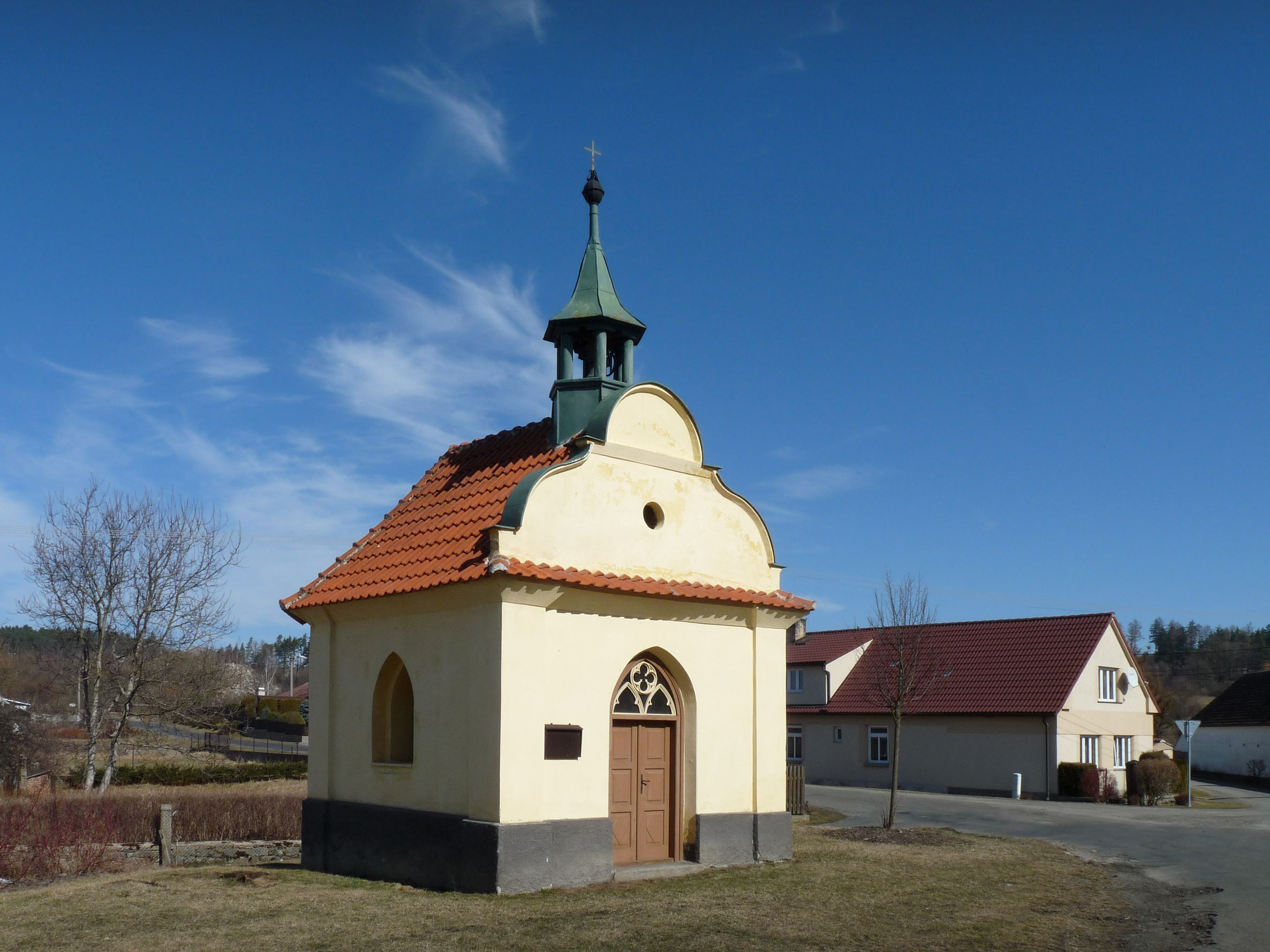 Saint John of Nepomuk Chapel in the municipality of Slatina, Klatovy District, Czech Republic